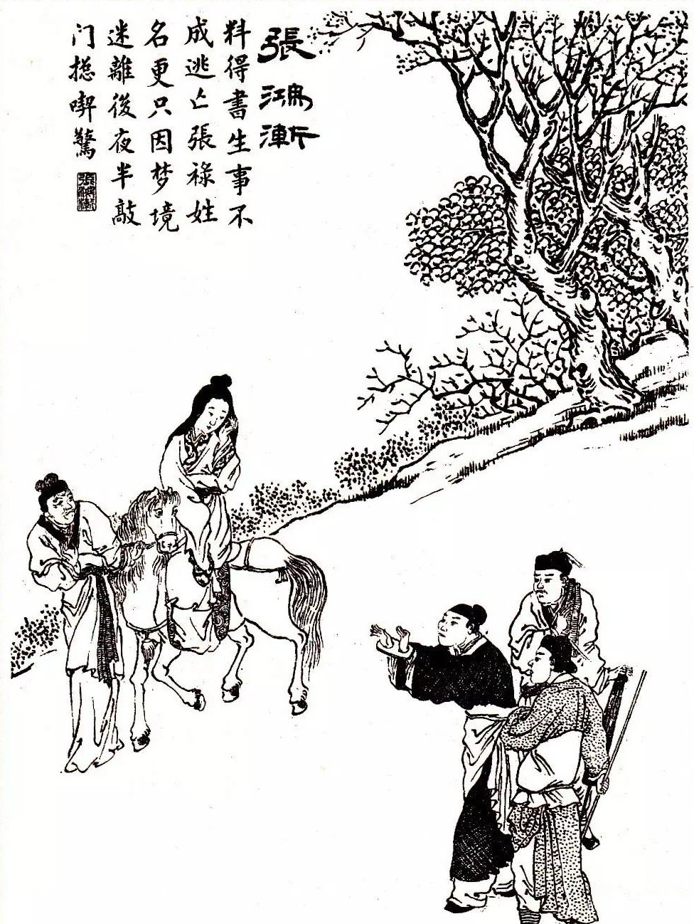 19th-century illustration of a scene from the short story "Zhang Hongjian" collected in Strange Tales from a Chinese Studio (1740).